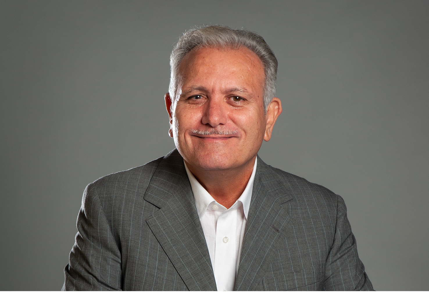 Landscape Chrys